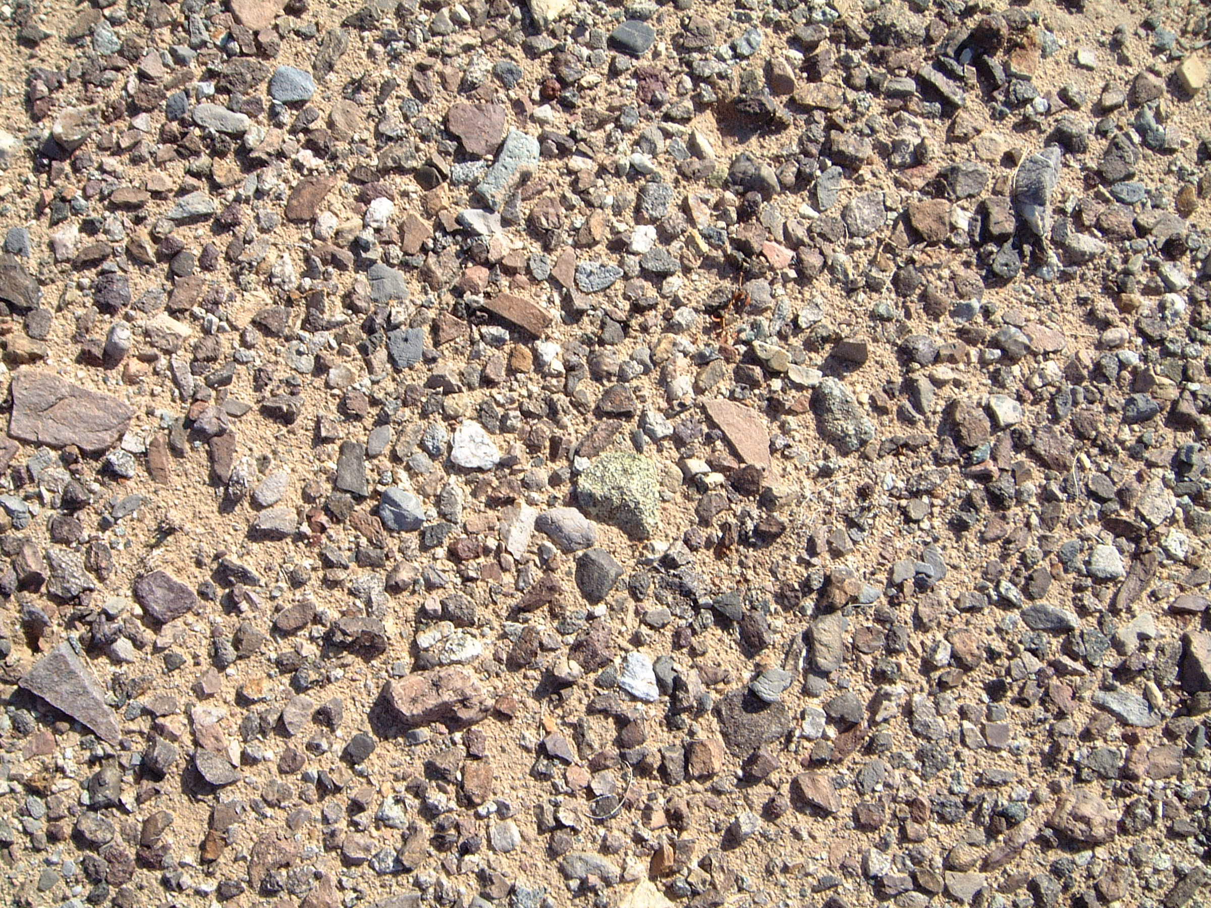 Desert pavement in the Cima Volcanic Field of the Mojave Desert.